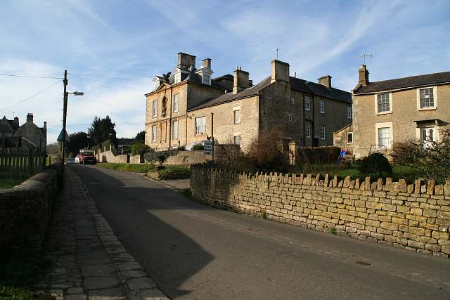 Eagle House, dated 1729 was home in the early 1900's to Mary Blathwayt who was part of the Suffragette movement and a lot of the members of the Women's Social and Political Union at one time stayed in the house.